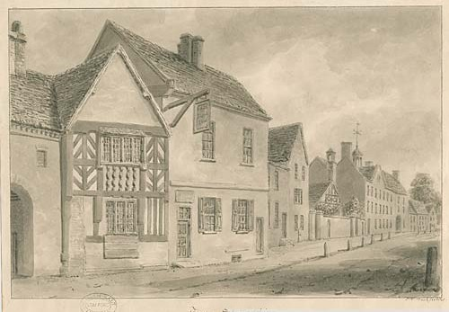 Tean, Staffordshire, England. A village street with old houses. The building at far right with a cupola is Tean Mills, owned by J. & N. Philips